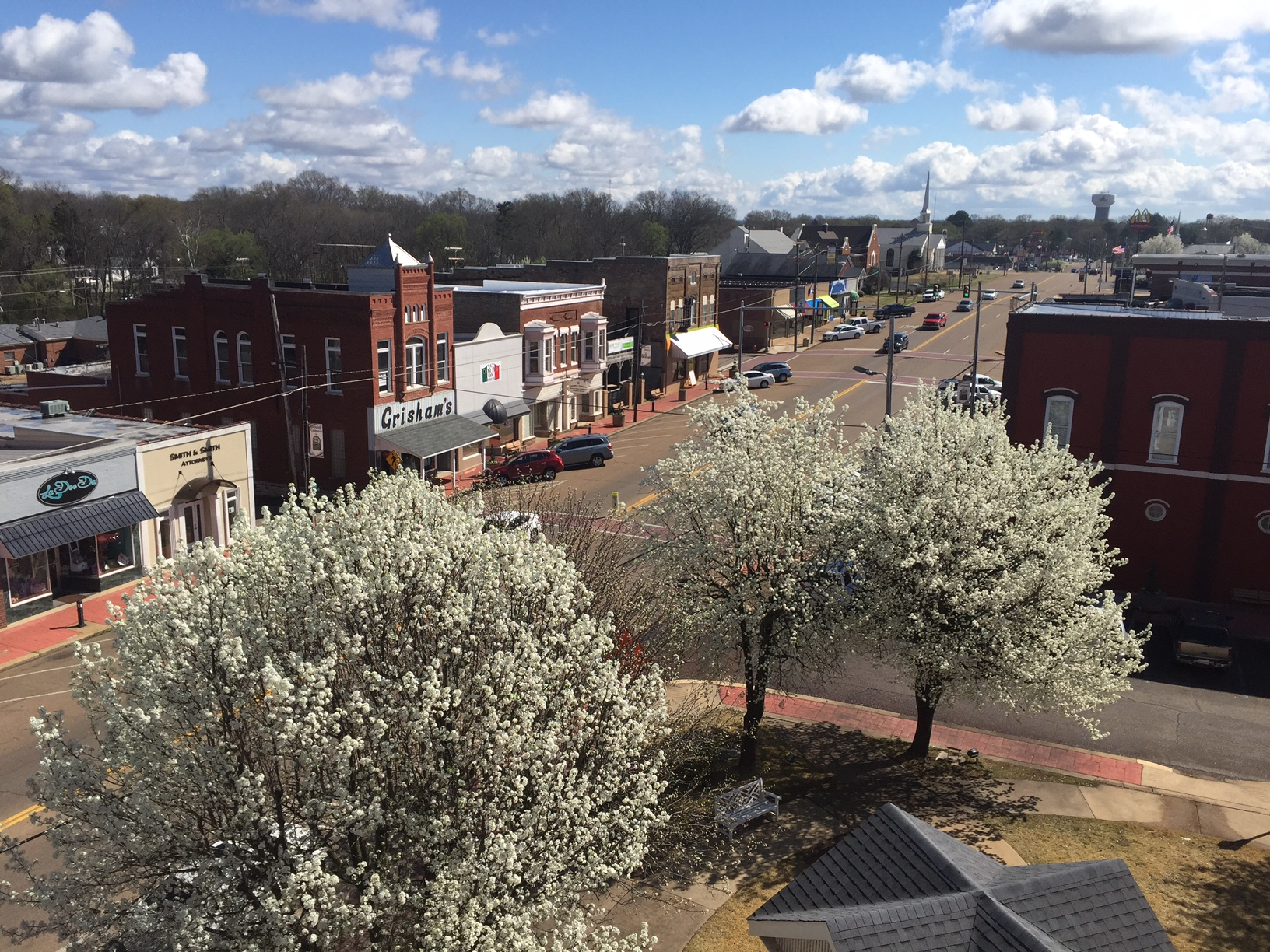 From atop the courthouse looking east with Bradford Pears in full bloom